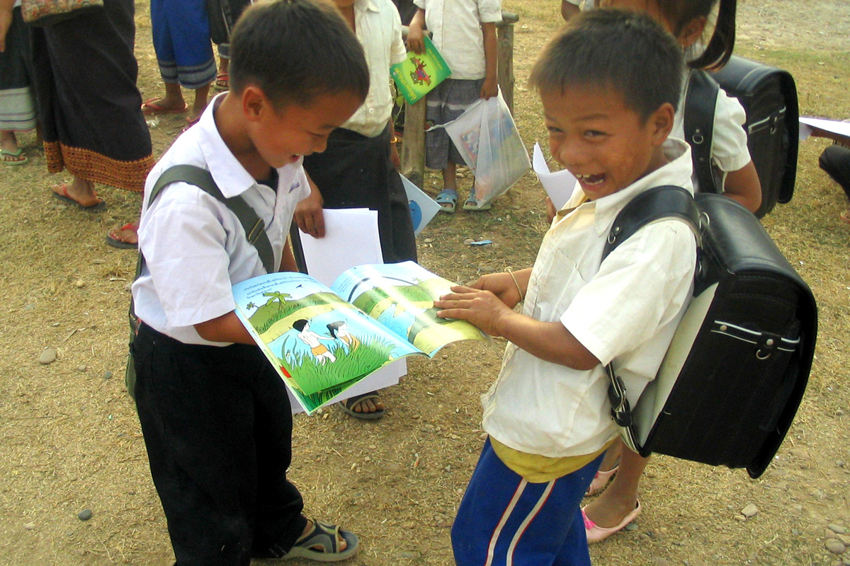 Two boys in Laos laugh over the book "What Can You Do with an Extra Dinosaur?", which one of them had received as his first book. This took place at a rural school book party sponsored by Big Brother Mouse, which says its goal is to "make literacy fun!"